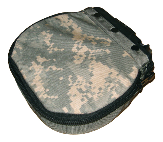 M249 light machine gun 200-Round Soft Pack